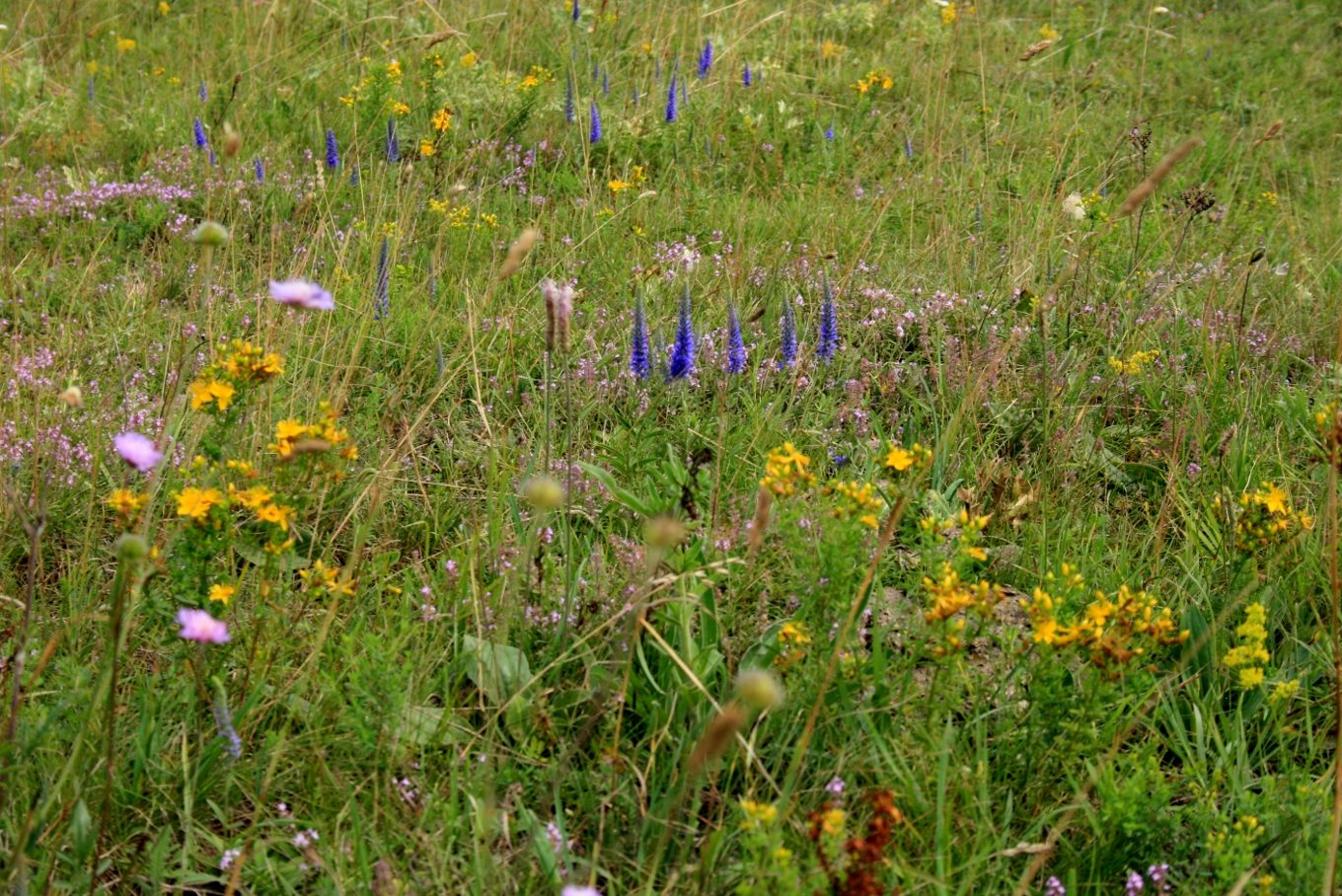 Steppe vegetation at Lange Lacke in northern Burgenland, Austria. You may identify Veronica spicata (slim, blue spikes), Hypericum perforatum, Thymus praecox (low, pink flowers), Plantago media (broad leeaves, pink spikes) and many different grasses.